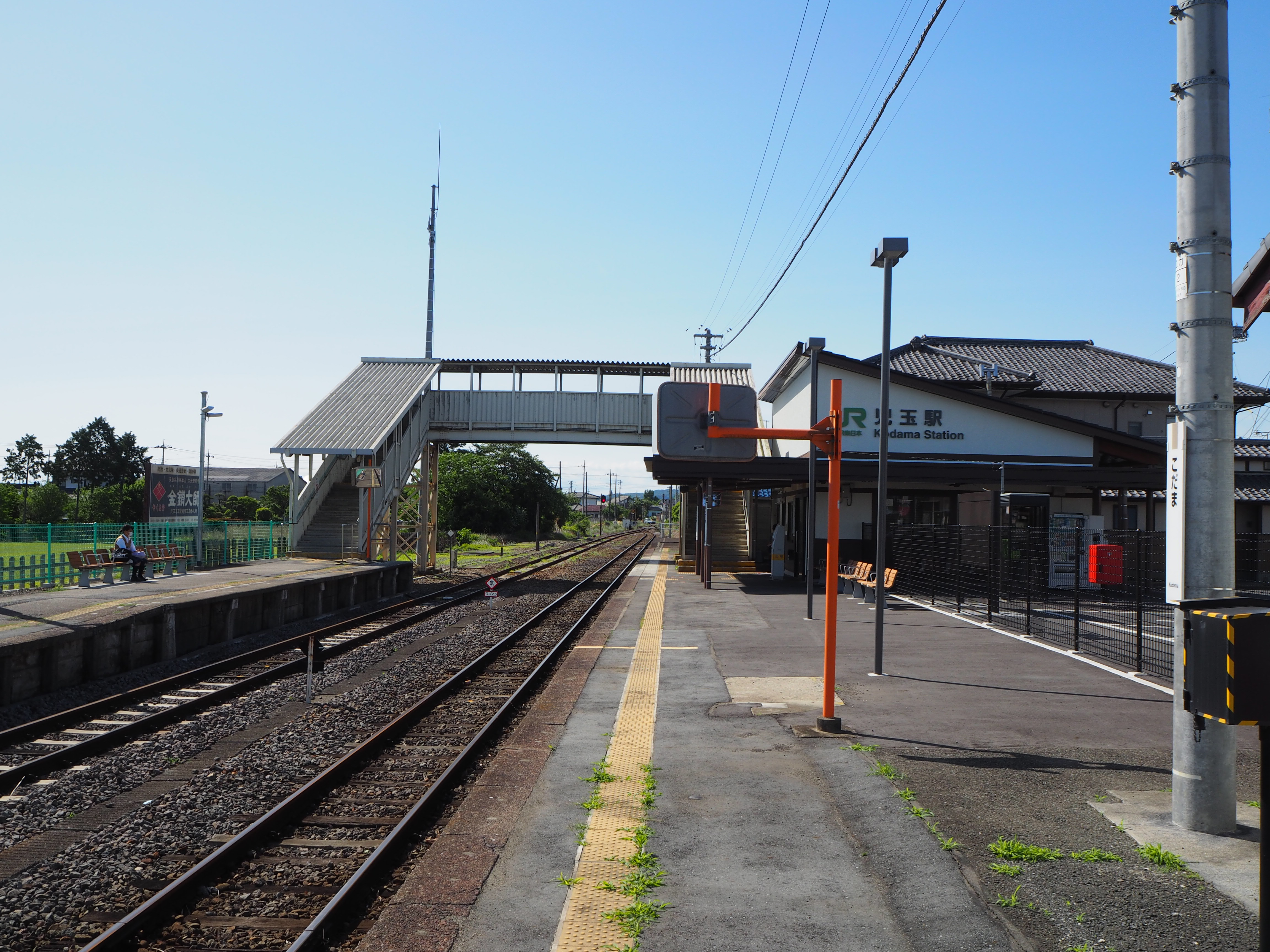 Platforms of Kodama Station